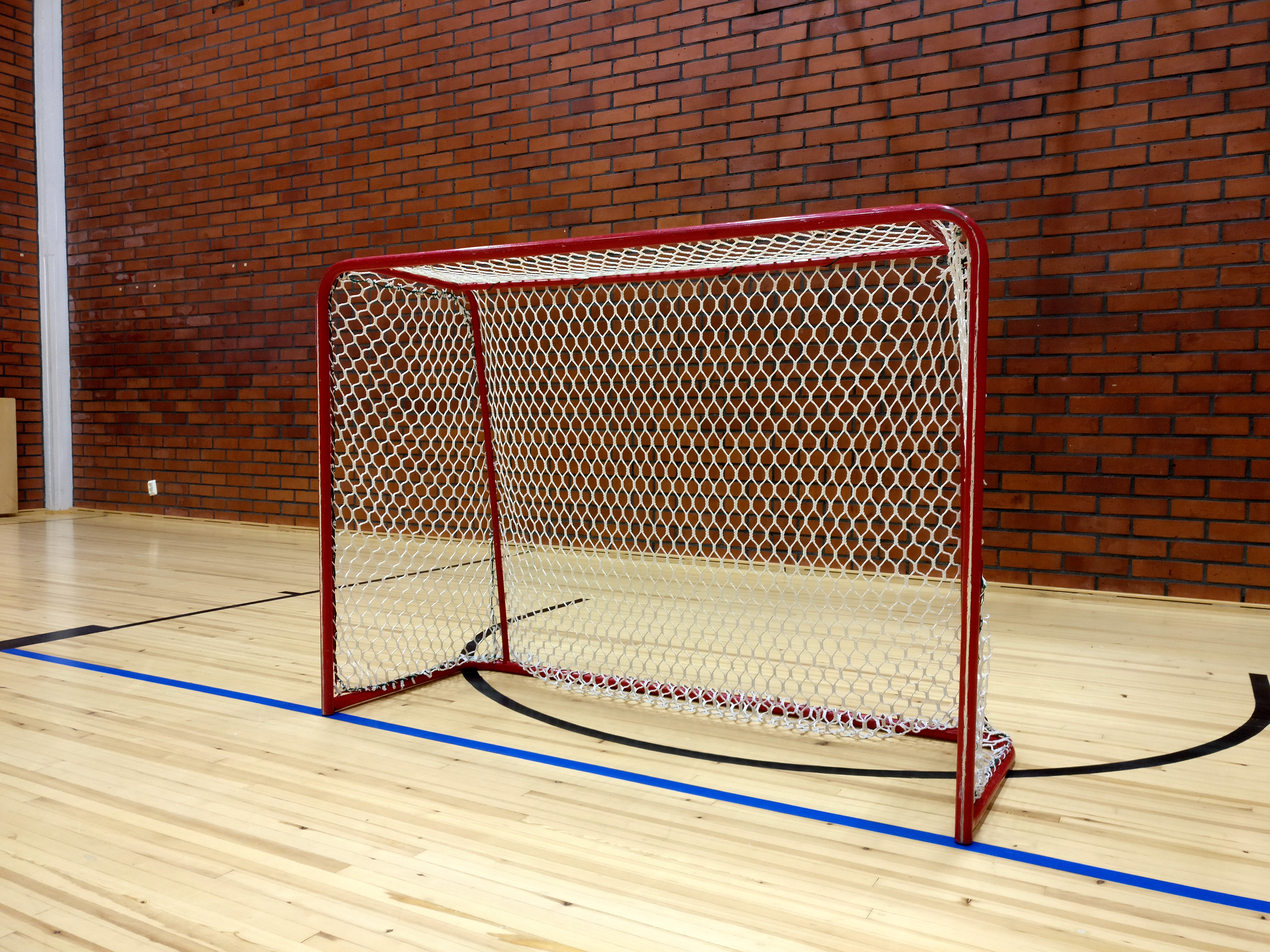 Floorball goal.